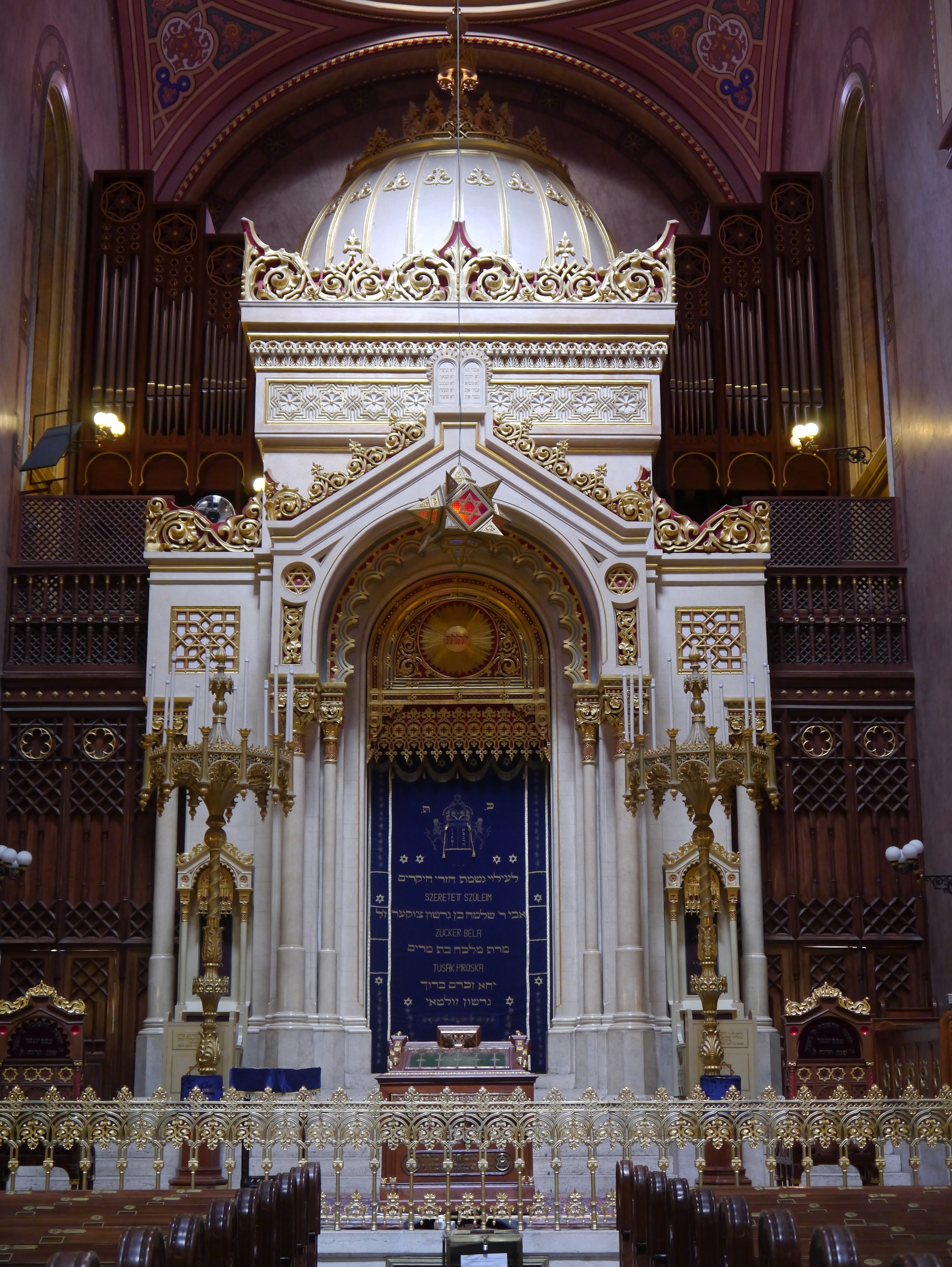 Torah ark of the Great Synagogue, Budapest, Northern Hungary